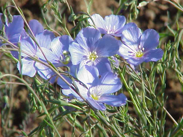 Species: Linum lewisii Family: Linaceae Image No. 1